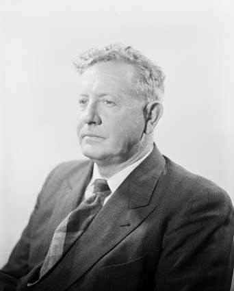 A 1956 black and white portrait of Malcolm Scott, Senator for Western Australia